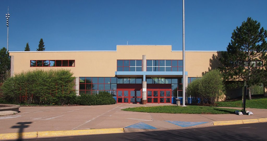 Minnesota Discovery Center, Chisholm, Minnesota, USA. Viewed from the southeast.